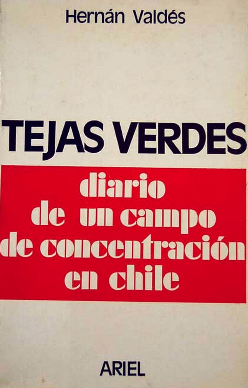 Cover of the first edition of "Tejas Verdes", by Chilean writer Hernán Valdés